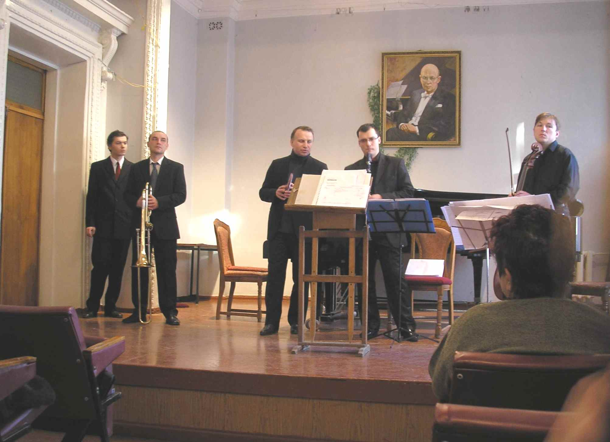 Ensemble New music in Ukraine in Donetsk